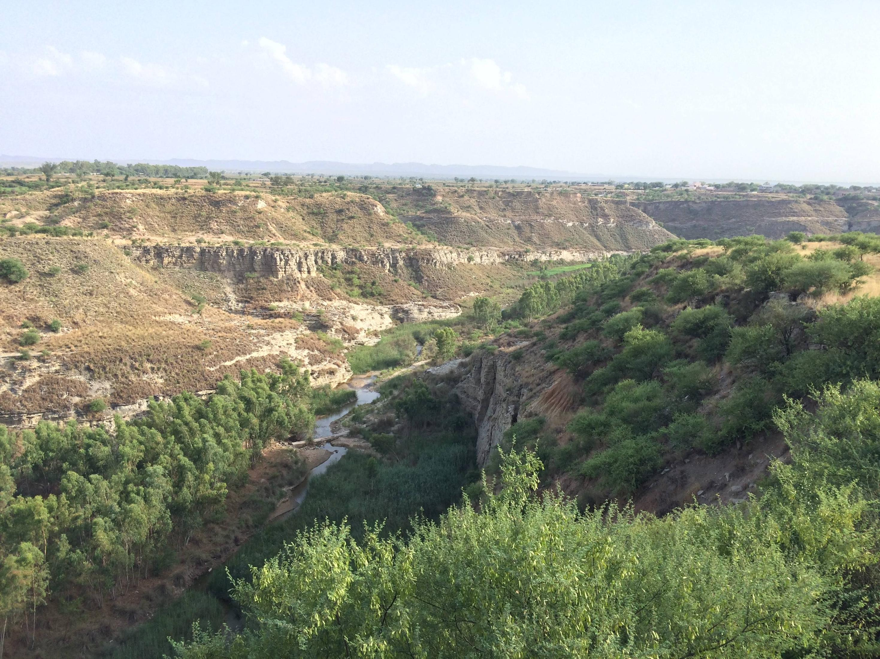 Potohar Rawalpindi